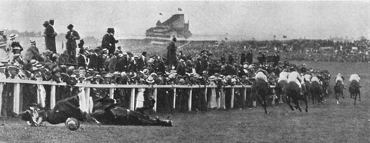 The English suffragette Emily Davison after she was hit by a horse at the Epsom Derby on 4 June 1913